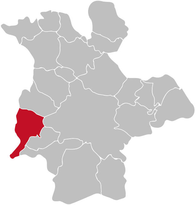 Location of the district Oberschelden within Siegen, Germany. Red/Grey colors match the color scheme of Germany maps and information boxes in German Wikipedia. District is highlighted in red.